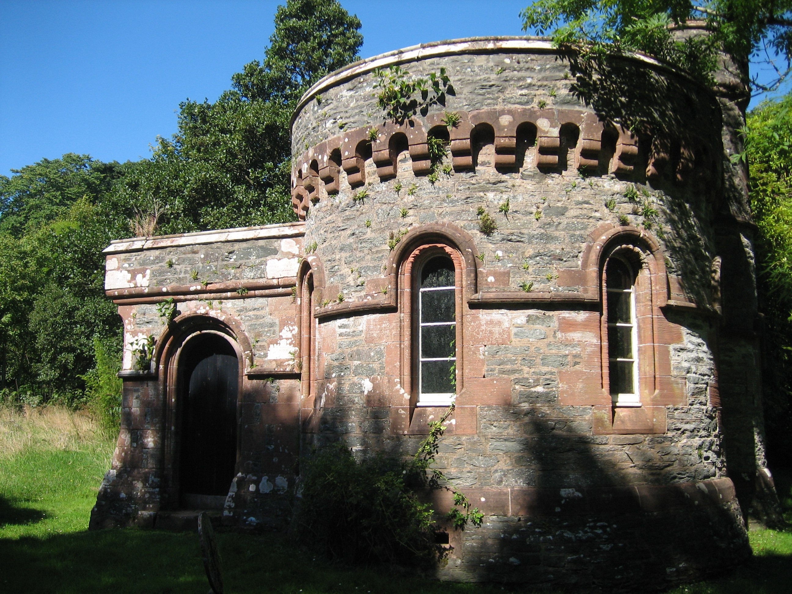 Gate lodge of the manor of Skipness Castle